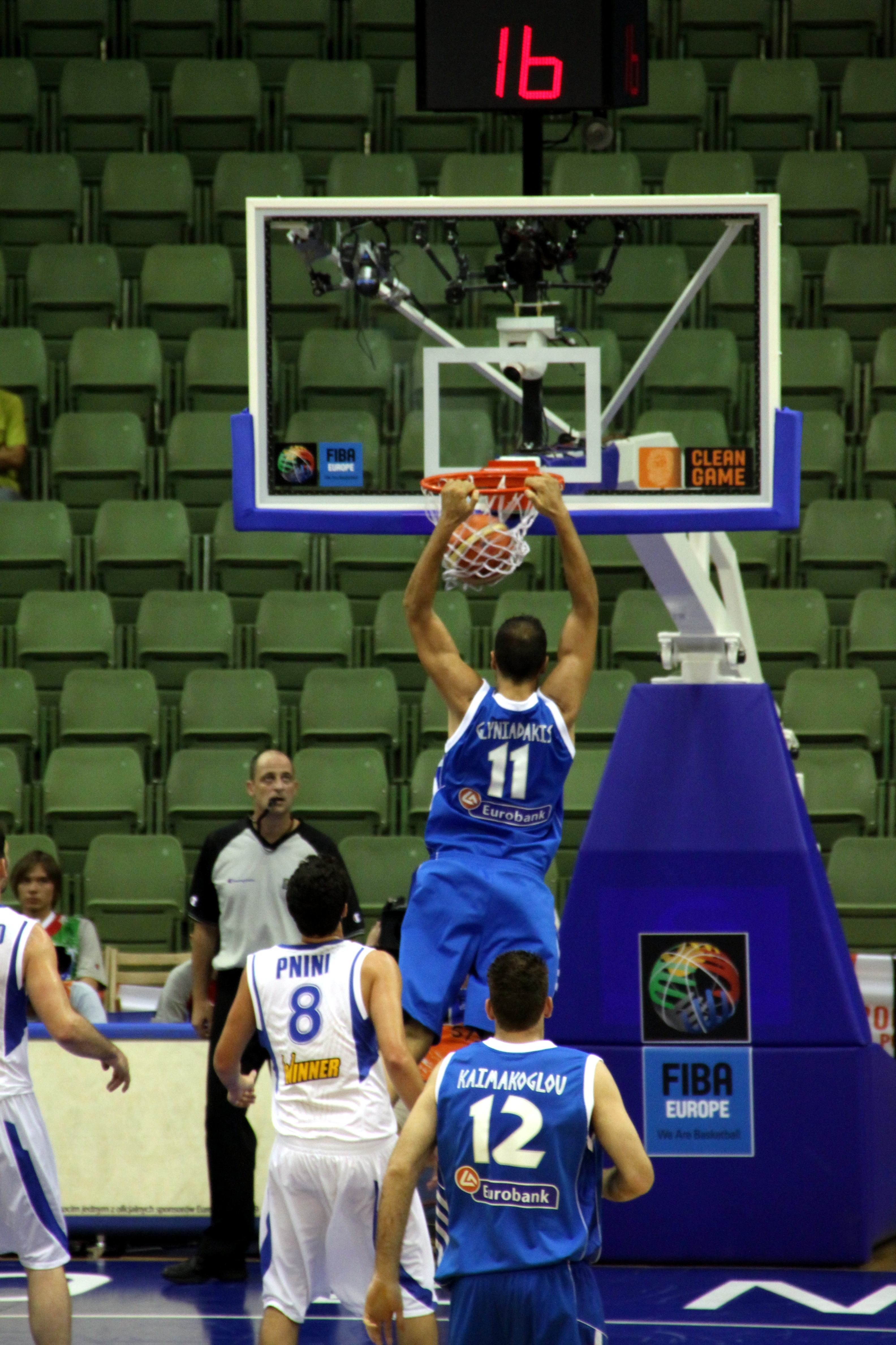 The Center of the Greek National Basketball team, Andreas Glyniadakis, strikes the 100th point at the game against Israel for the Preliminary stage of the Eurobasket 2009 Poland... [Israel 80-106 Greece, Eurobasket 2009, Poland] Israel 80-106 Greece